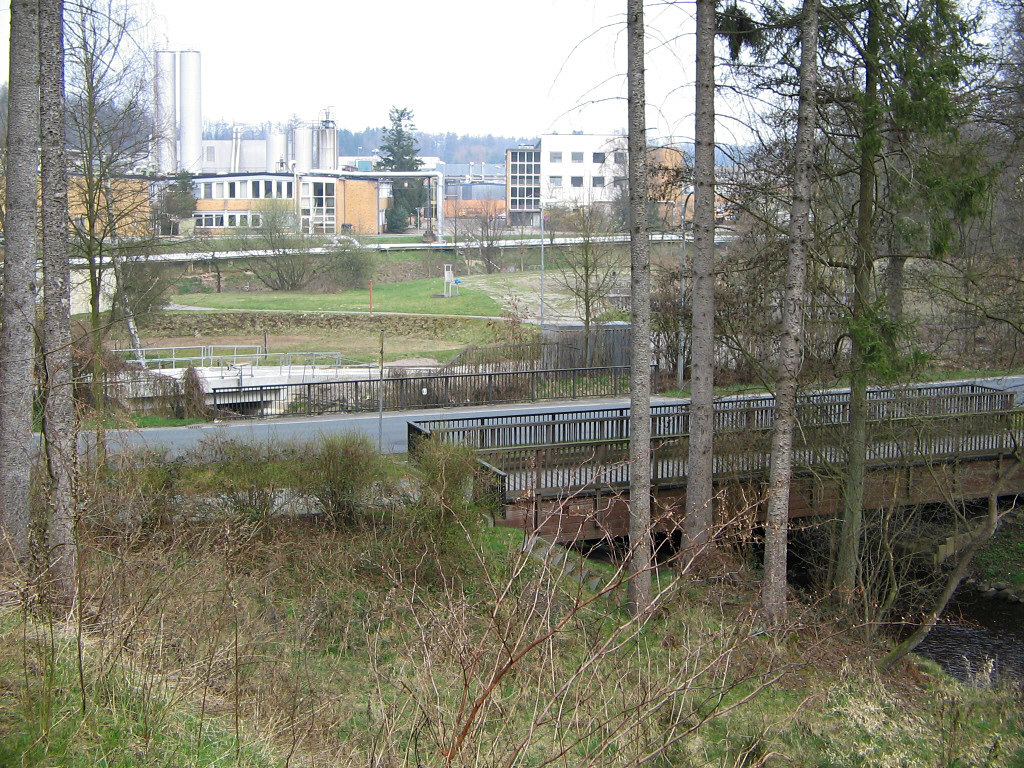 Part of Dow Wolff Cellulosics in Bomlitz-Kiebitzort, Niedersachsen (Lower Saxony), Germany. Foreground: bridges over Bomlitz river